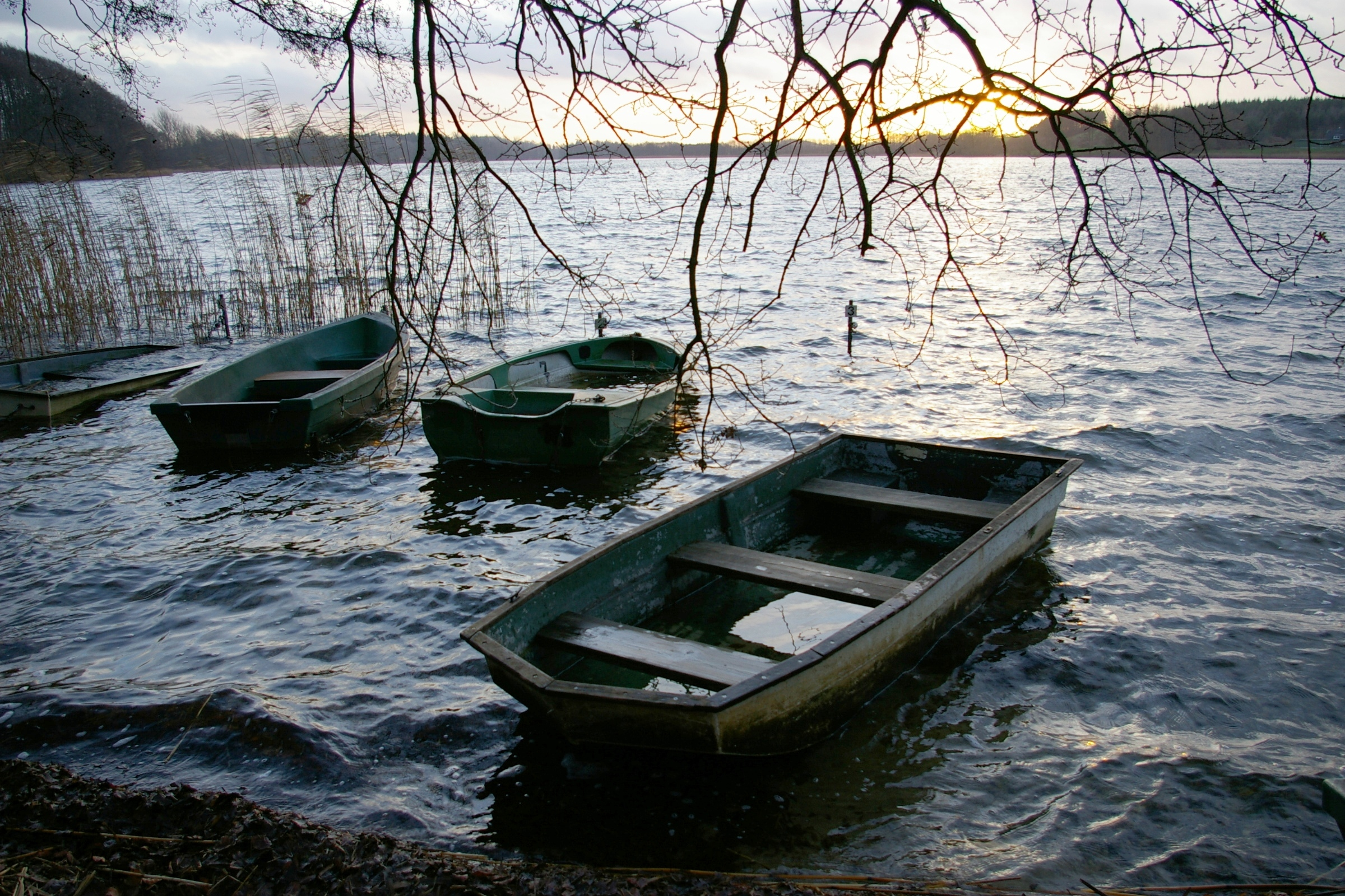 Pohlsee - overlooking the lake southward